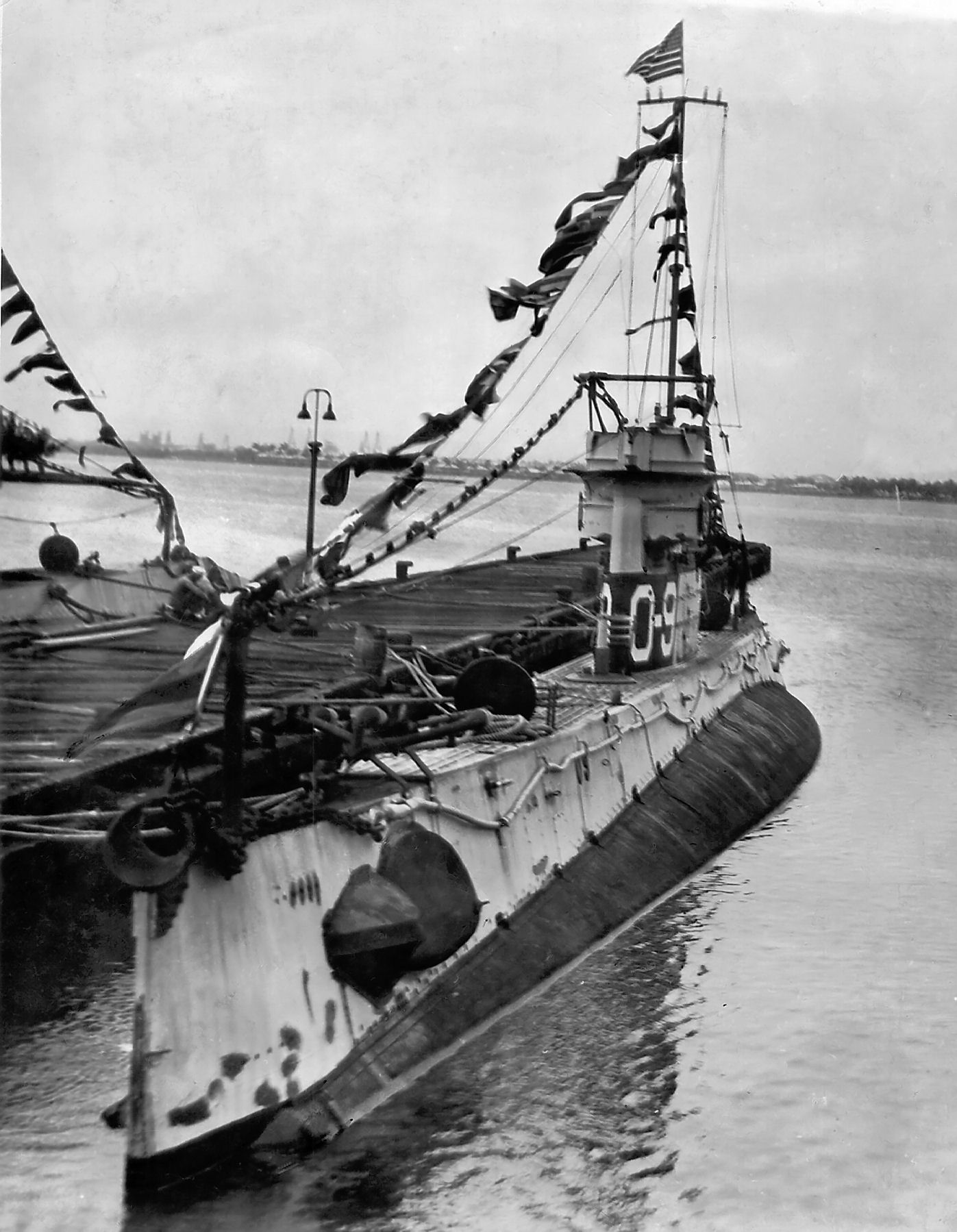 The USS O-9 (SS-70) taken on President's Day en:1928 in Coco Solo, Panama CZ. Scan of image originally owned by the contributor and inherited from Grandfather. Note: Original was contributed to memorial via United States Submarine Veterans, Inc.